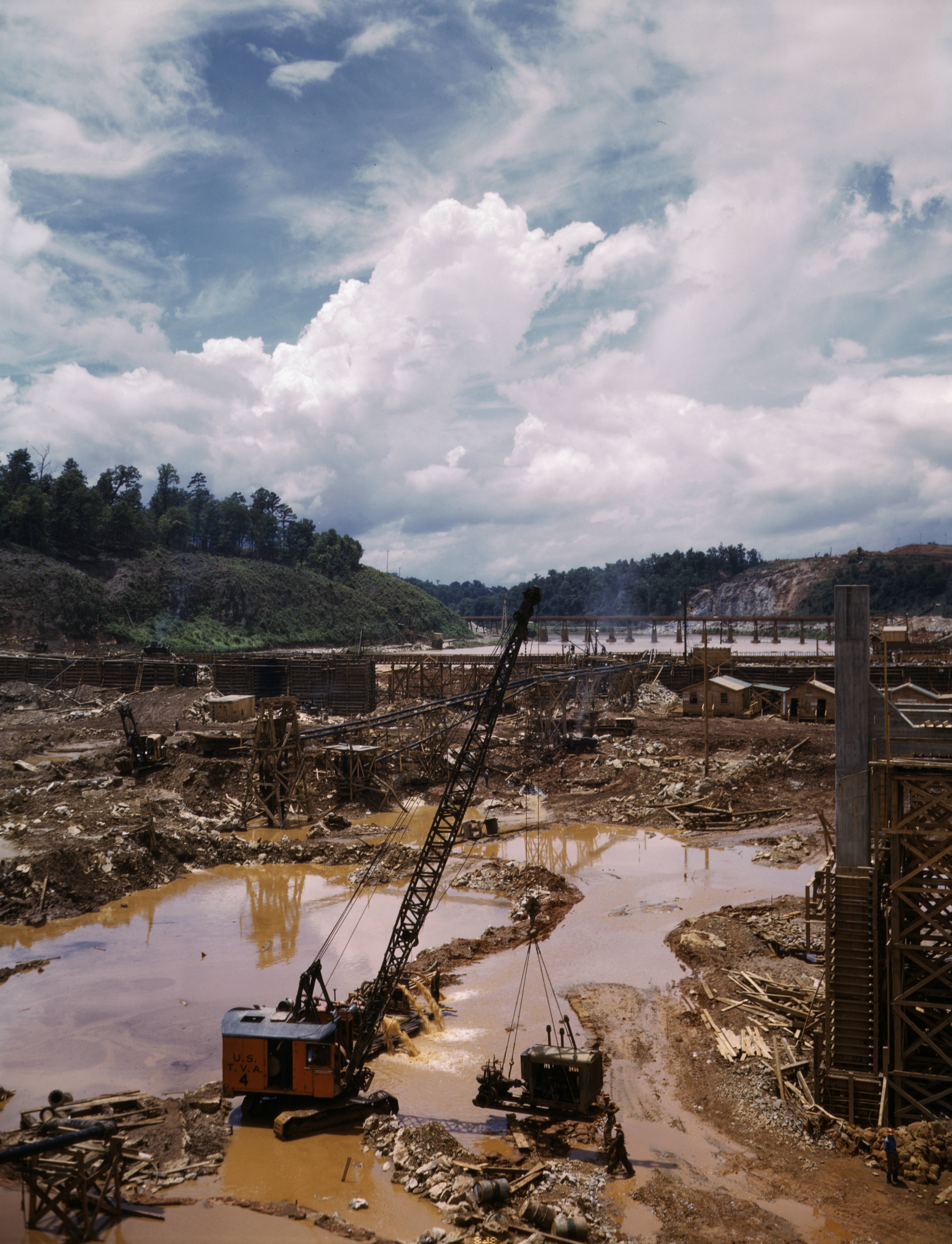 The Douglas Dam, Tennessee early in its construction in 1942.